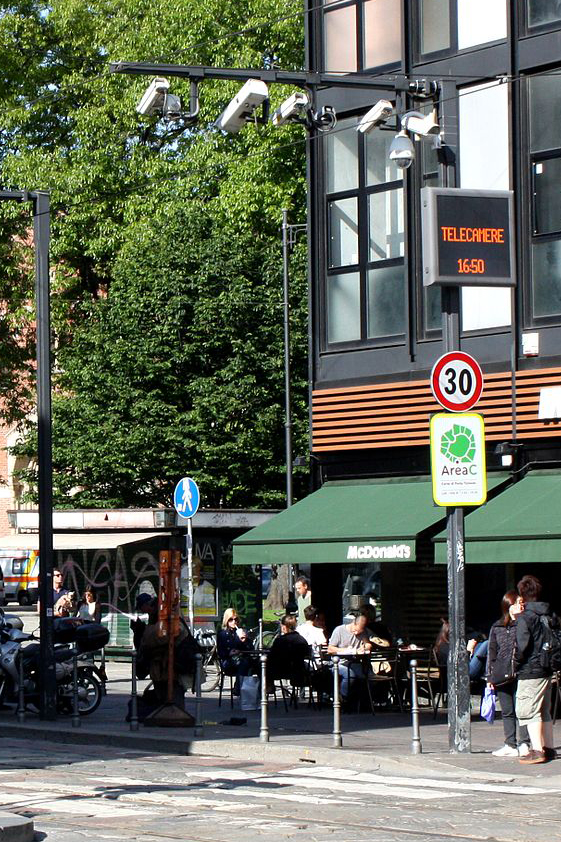 Area C congestion charge in Milan, Italy: Porta Ticinese gate in Piazza 24 Maggio